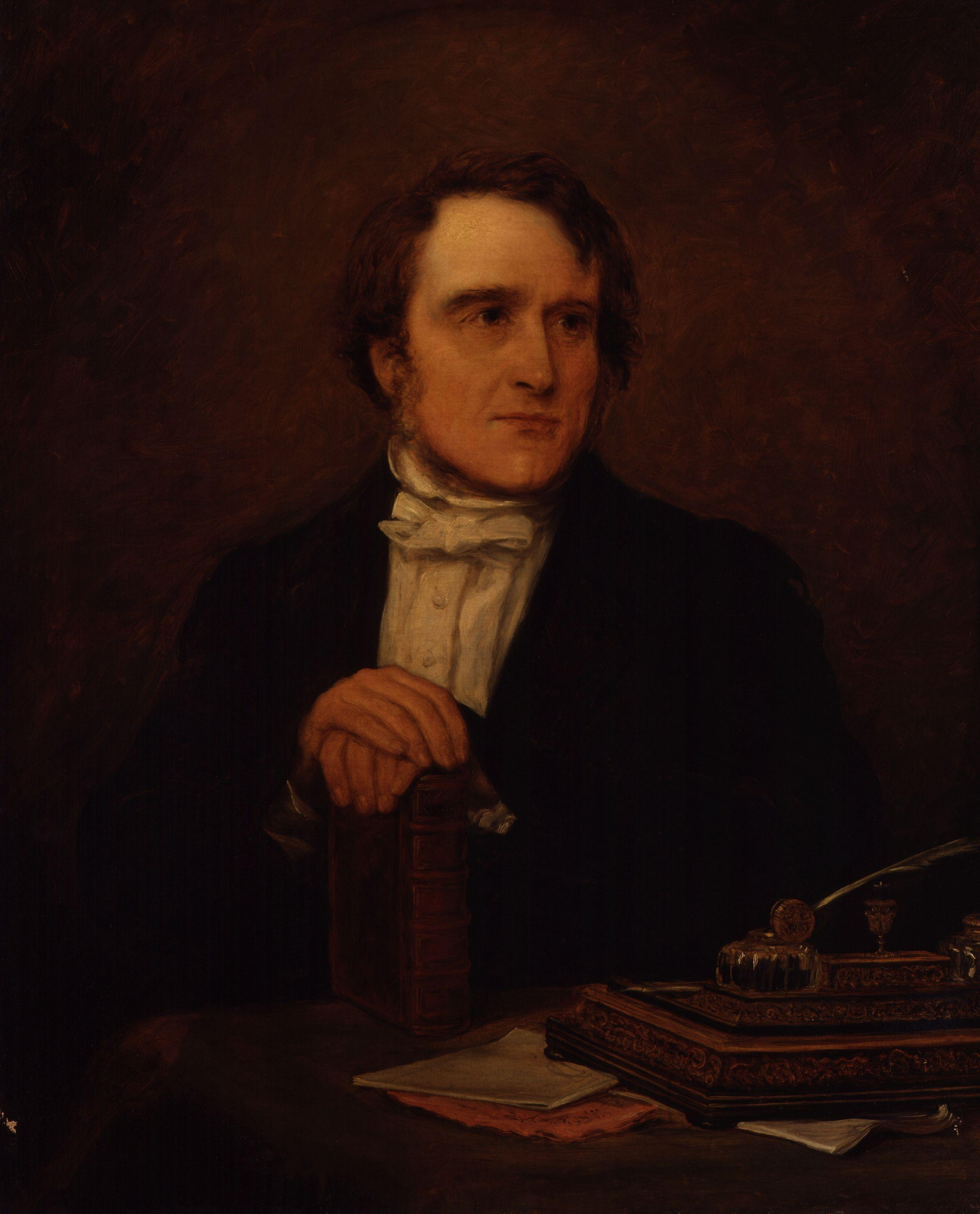 (John) Frederick Denison Maurice, by Jane Mary Hayward (died 1894), given to the National Portrait Gallery, London in 1872. All images in this batch have been confirmed as author died before 1939 according to the official death date listed by the NPG.